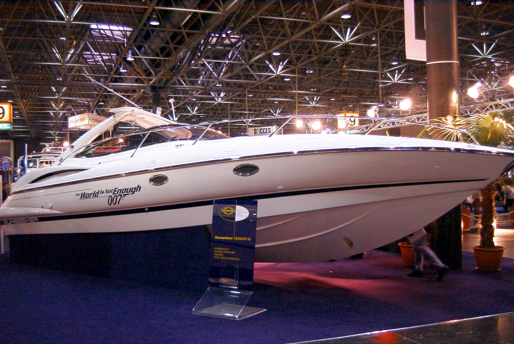 Yacht which was used in the James Bond film „The World Is Not Enough“; exhibitioned in Düsseldorf in spring 2000.